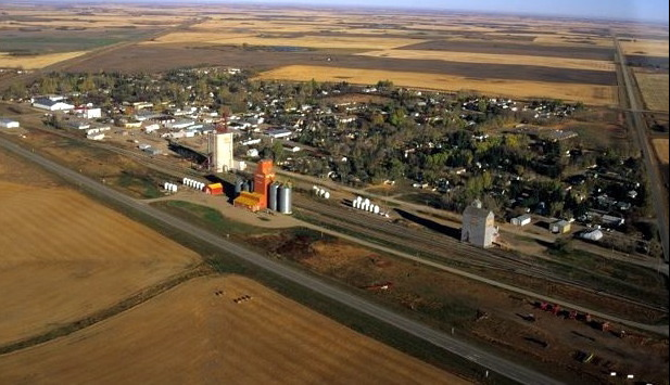 This is licensed under the creative commons.